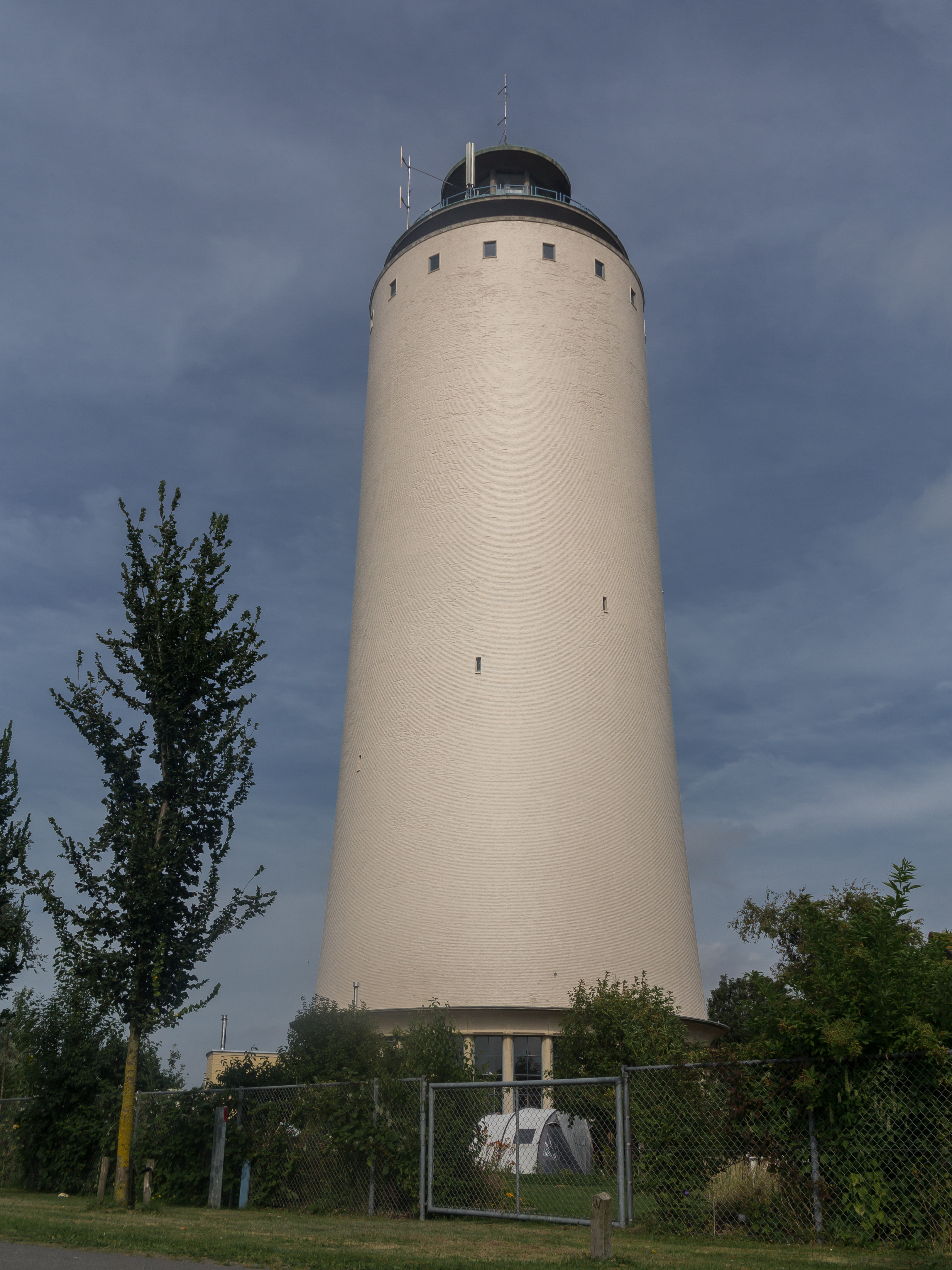 Oostburg, watertower